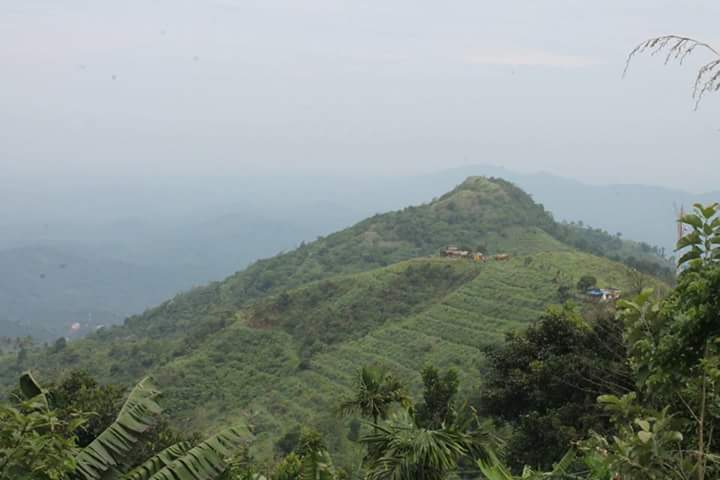 Elapeedika Kurisumala1